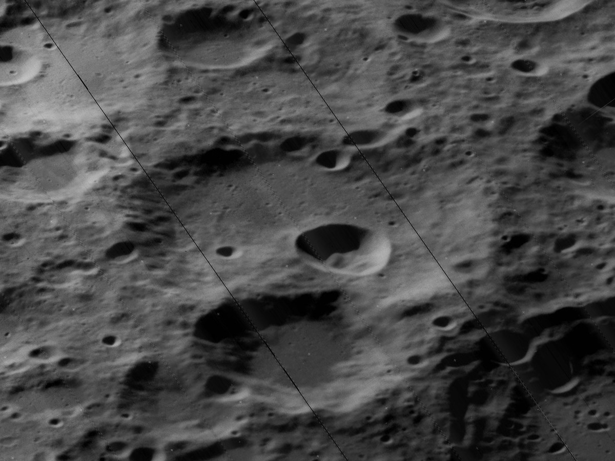 Oblique view of Paraskevopoulos, on the far side of the moon, facing west.